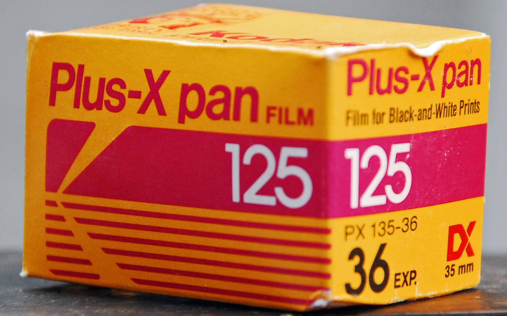 Kodak Plus-X Pan film box circa 1986